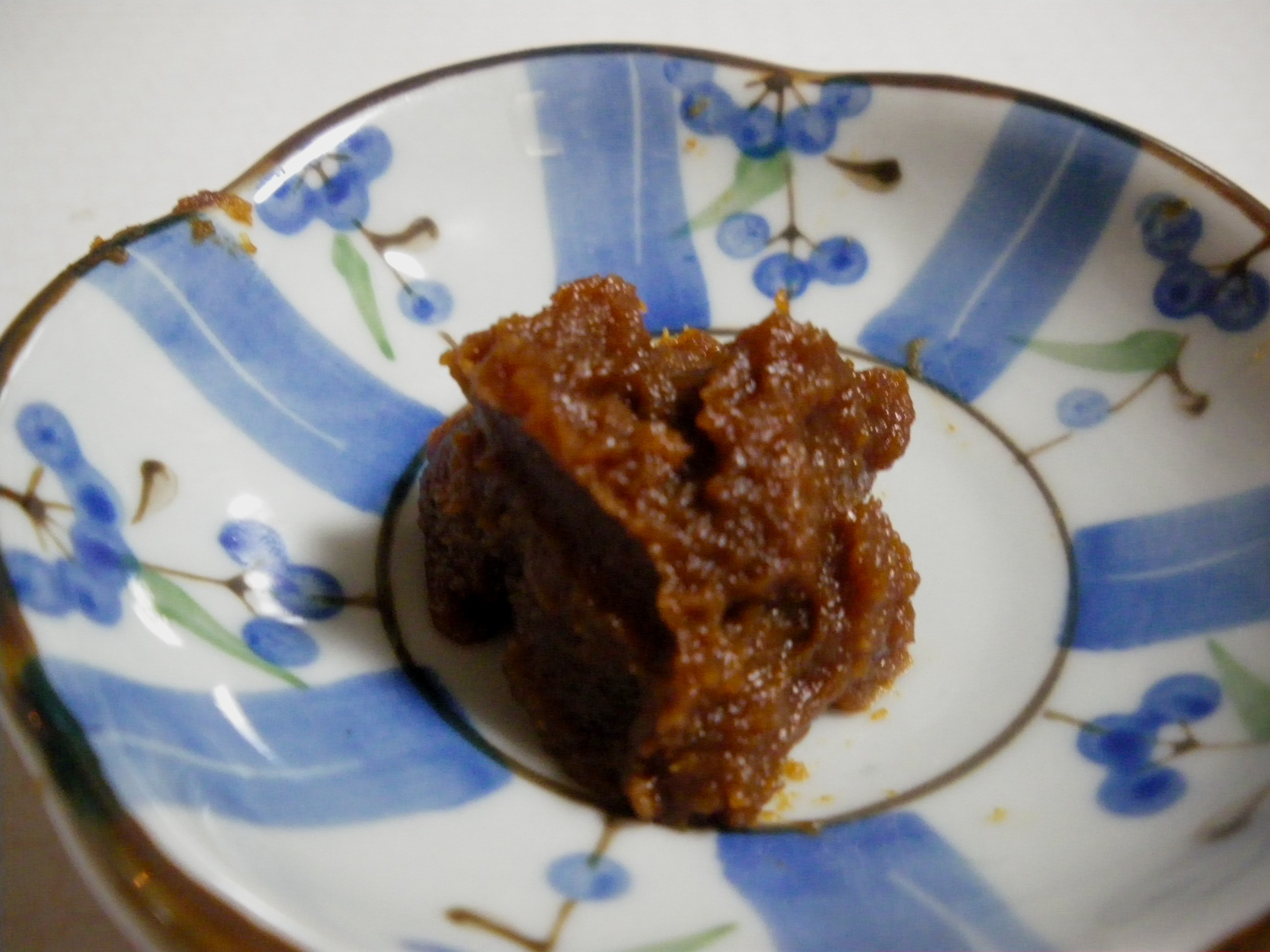 A photo of Edoama miso(Edoama is traditional miso in Tokyo.)